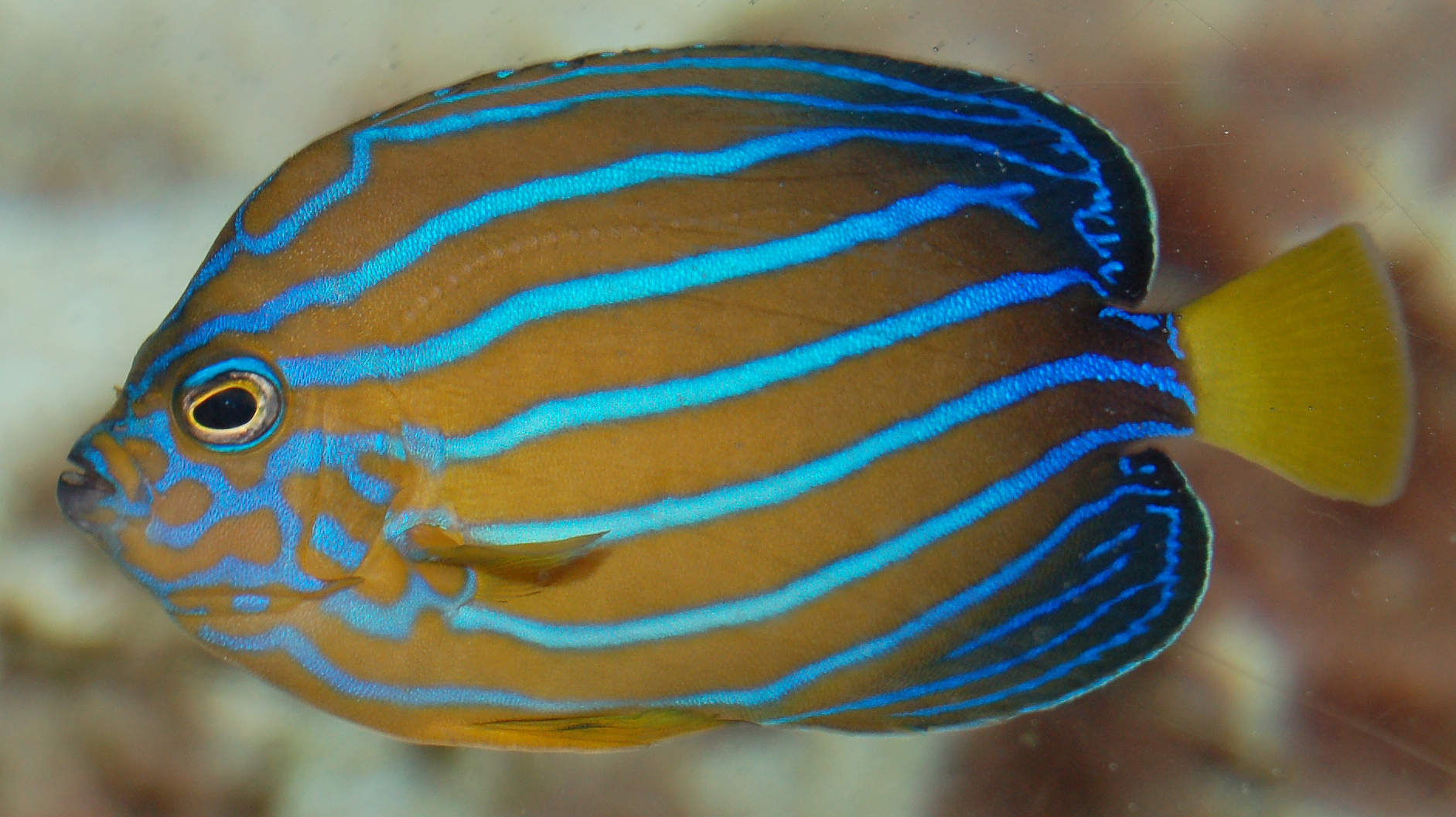 A photograph of an Bluestriped angelfishen (Chaetodontoplus septentrionalis en ). Photo taken at the PPG Aquarium in the Pittsburgh Zoo.